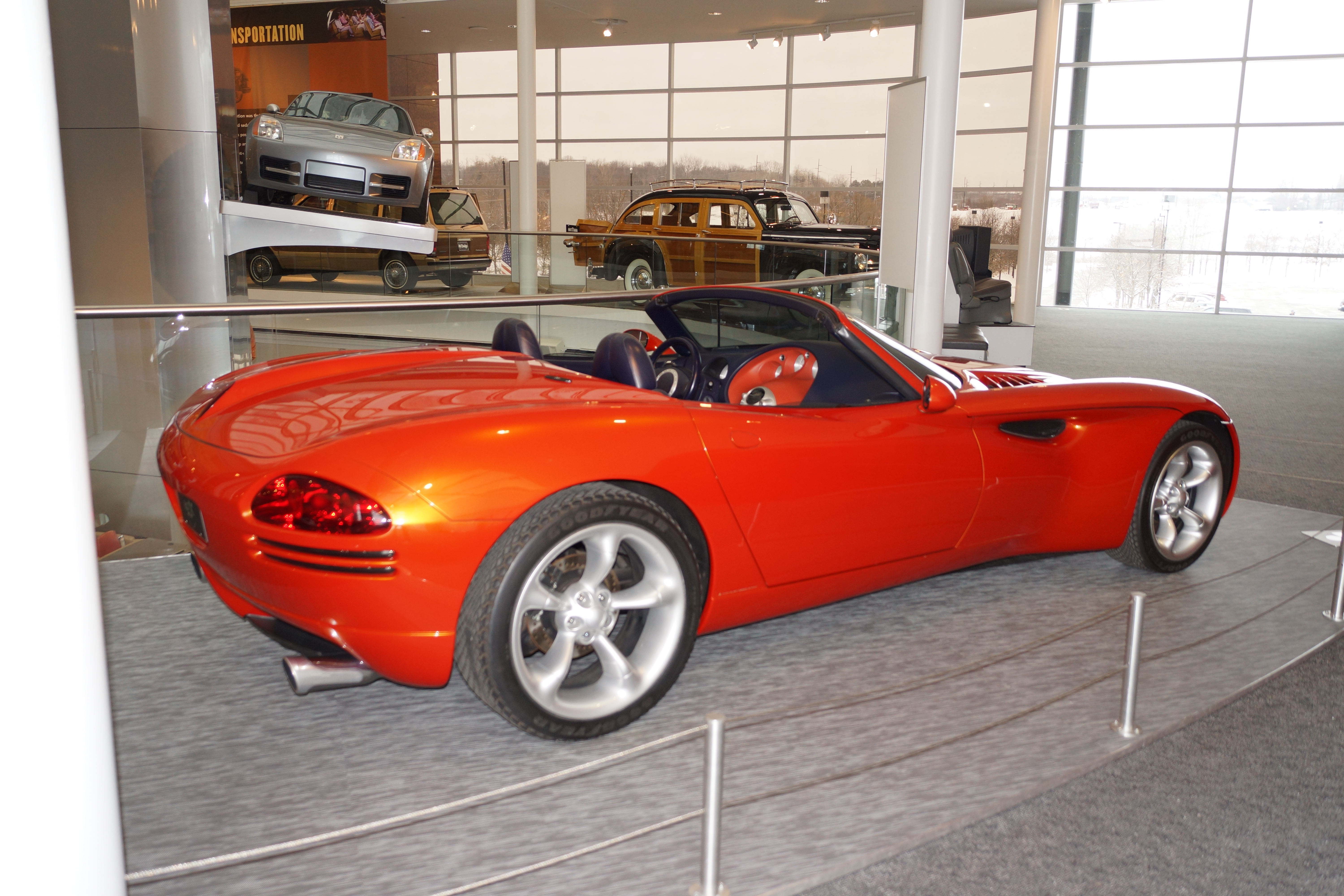 Click here for more car pictures at my Flickr site. Or here for my Car Crazy Tumblr site. ************************** Back on November 4th, Hemming's Blog posted an article about the closing of the Walter P. Chrysler Museum . I had missed a couple other opportunities with the WPC Club and others to get into the museum, after it had closed to the public. I did not want to regret missing this last chance to see all of the vehicles before being spread out to other facilities. I trekked from Western Minnesota to Eastern Michigan during Winter Storm Decima. I missed the worst parts of the storm, but still had to endure the aftermath winds, sub zero temperatures and a lake effect snow storm. The trip was difficult, but well worth it. I got to see several Chrysler Corporation concept and show cars that I had only seen pictures of before. There were several clever interactive displays demonstrating various innovations over the years. Since it was the last chance, I duplicated several shots using different camera settings to see what produced better results.